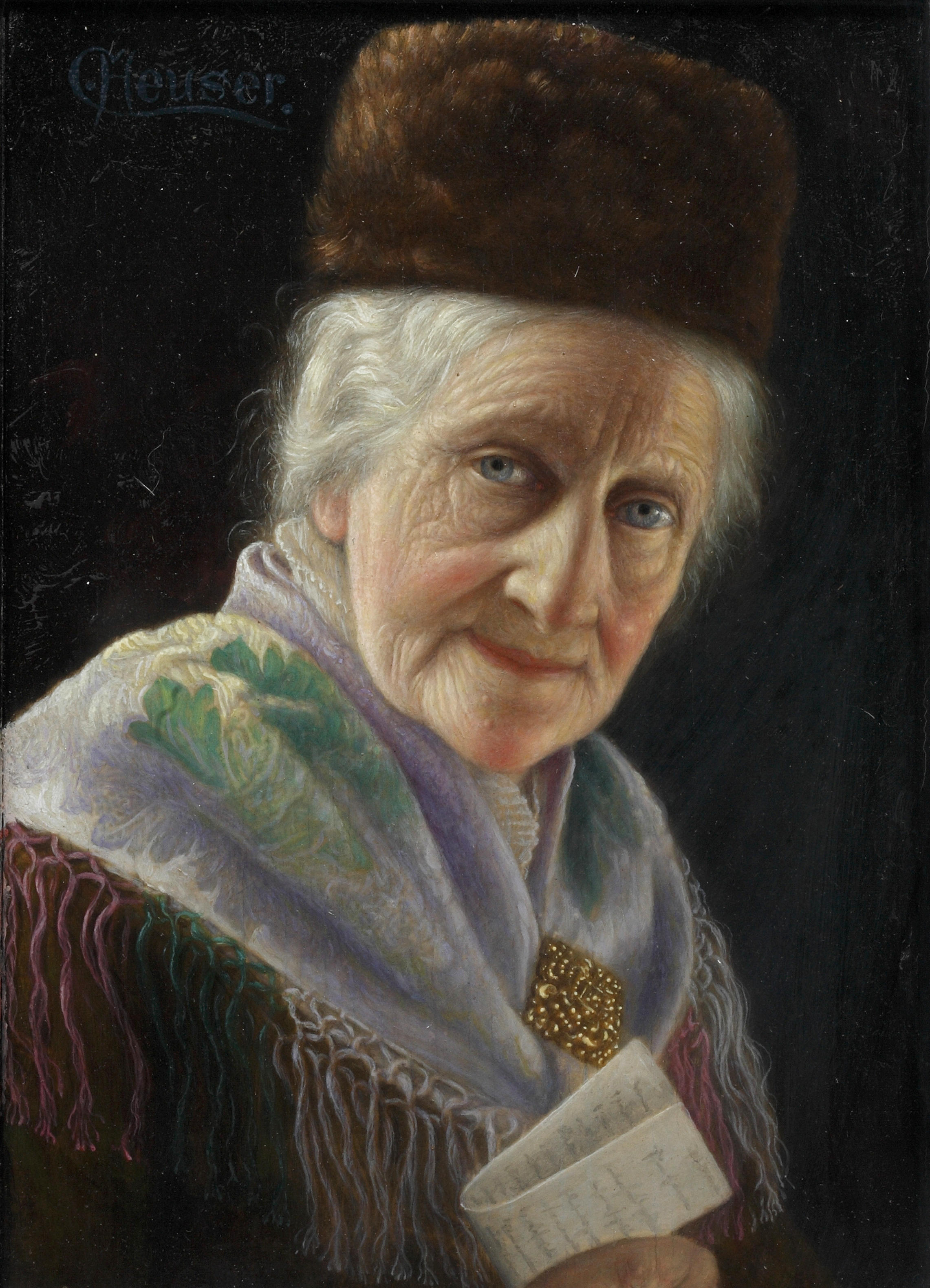 Portrait of an old lady with fur hat. Signed. Oil on panel, 16 x 11.5 cm